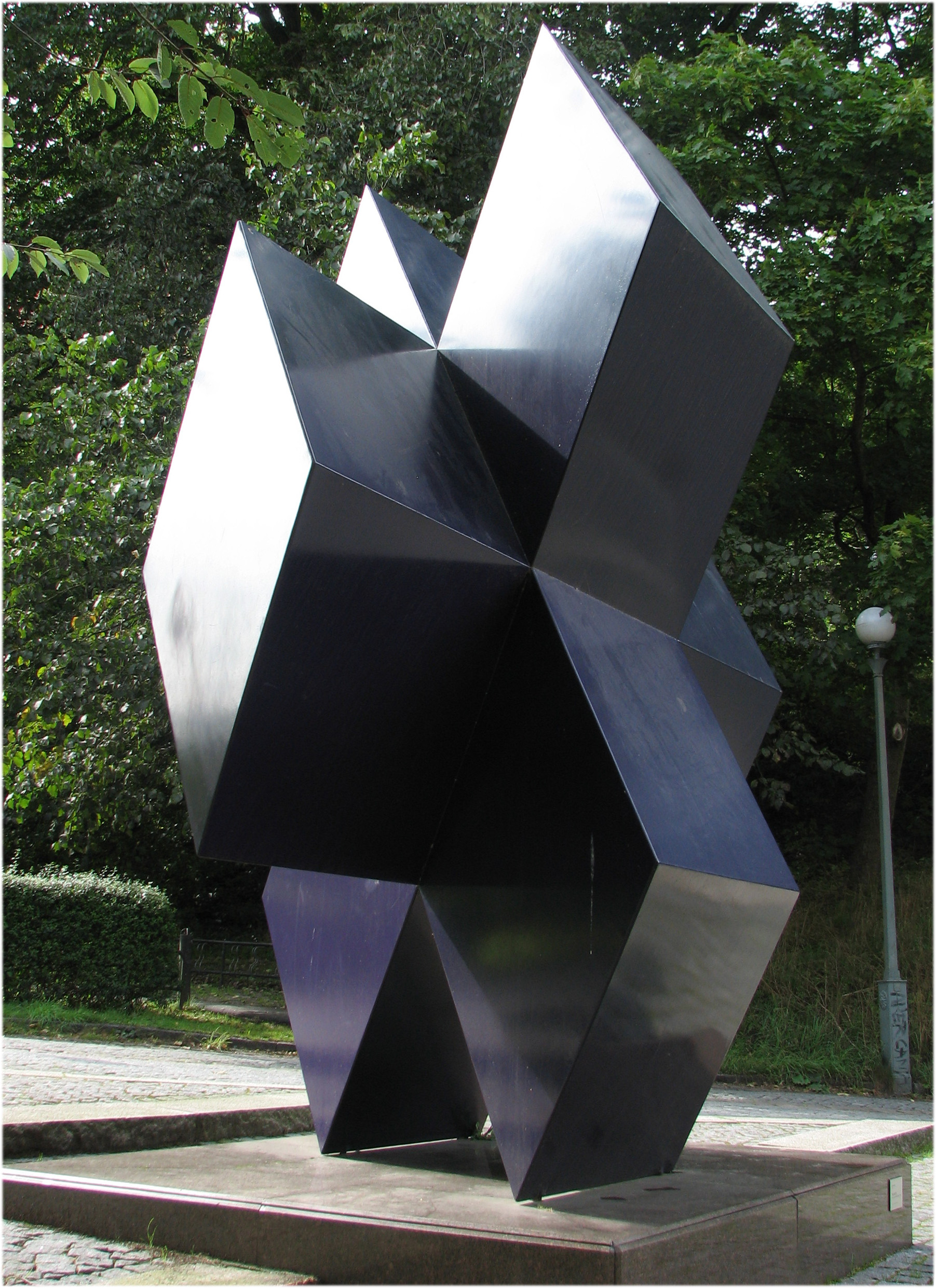 The sculpture Incantatio by Roland Borén, placed outside Artisten - the university of music and theatre in Göteborg.